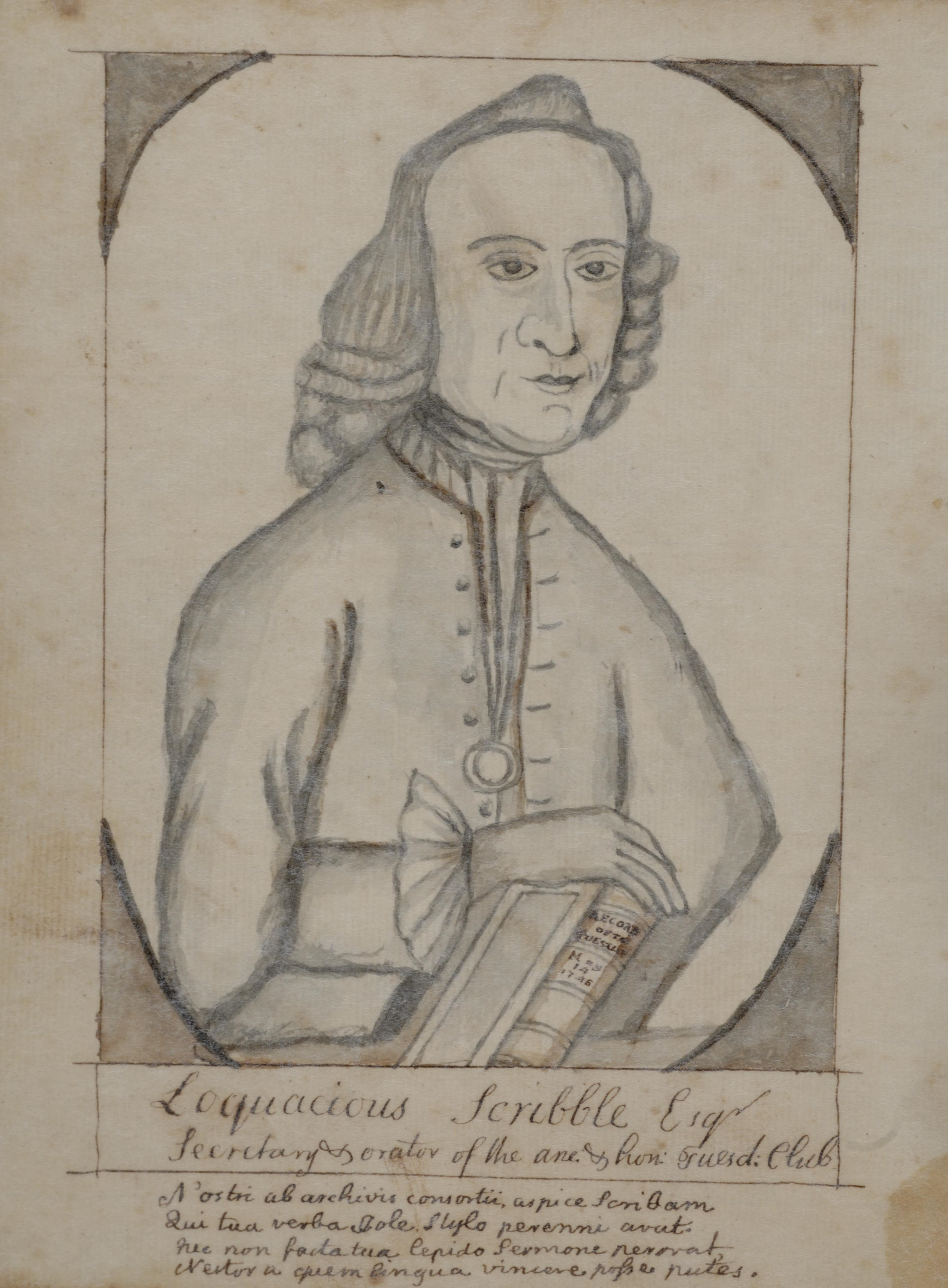 Caricature of Annapolis-based doctor Alexander Hamilton. Image found in the manuscript of The history of the ancient and honorable Tuesday club: From the earliest ages down to this present year, composed in 1755. Housed at The John Work Garrett Library of The Johns Hopkins University.